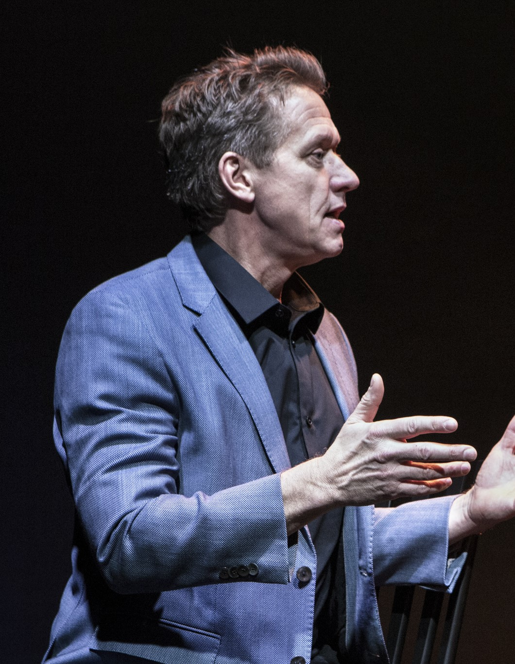 Henrik Lykkegaard in the Copenhagen theater Folketeatret's production of the play "Livet, hvor svært ka' det være?" by Vase & Fuglsang.